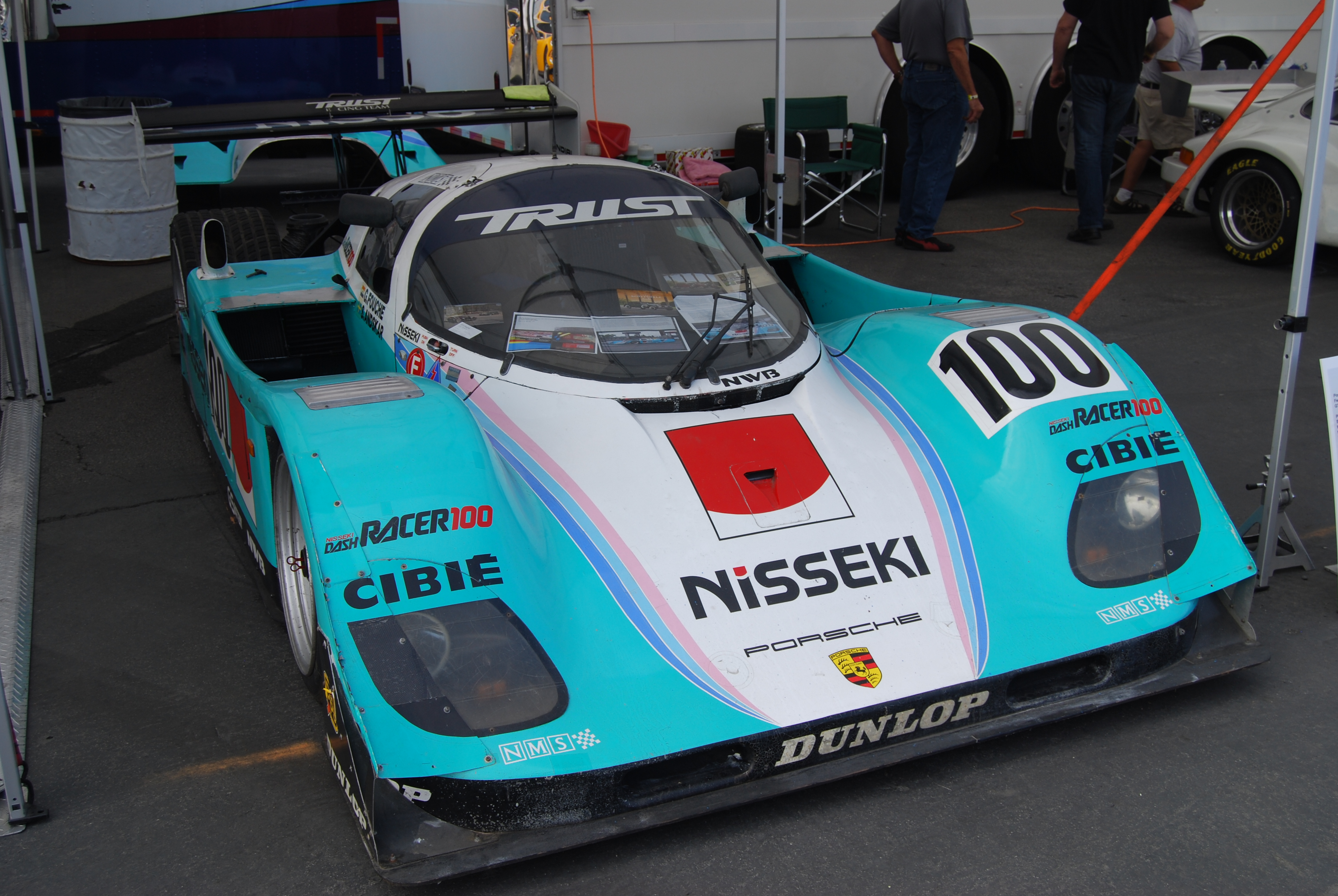 Trust Racing Team's Porszche 962C GTi at the 2011 RennSport reunion. This car has been driven by George Fouché and Steven Andskär in the All-Japan Sports Prototype Championship. 6g7_DSC_0356